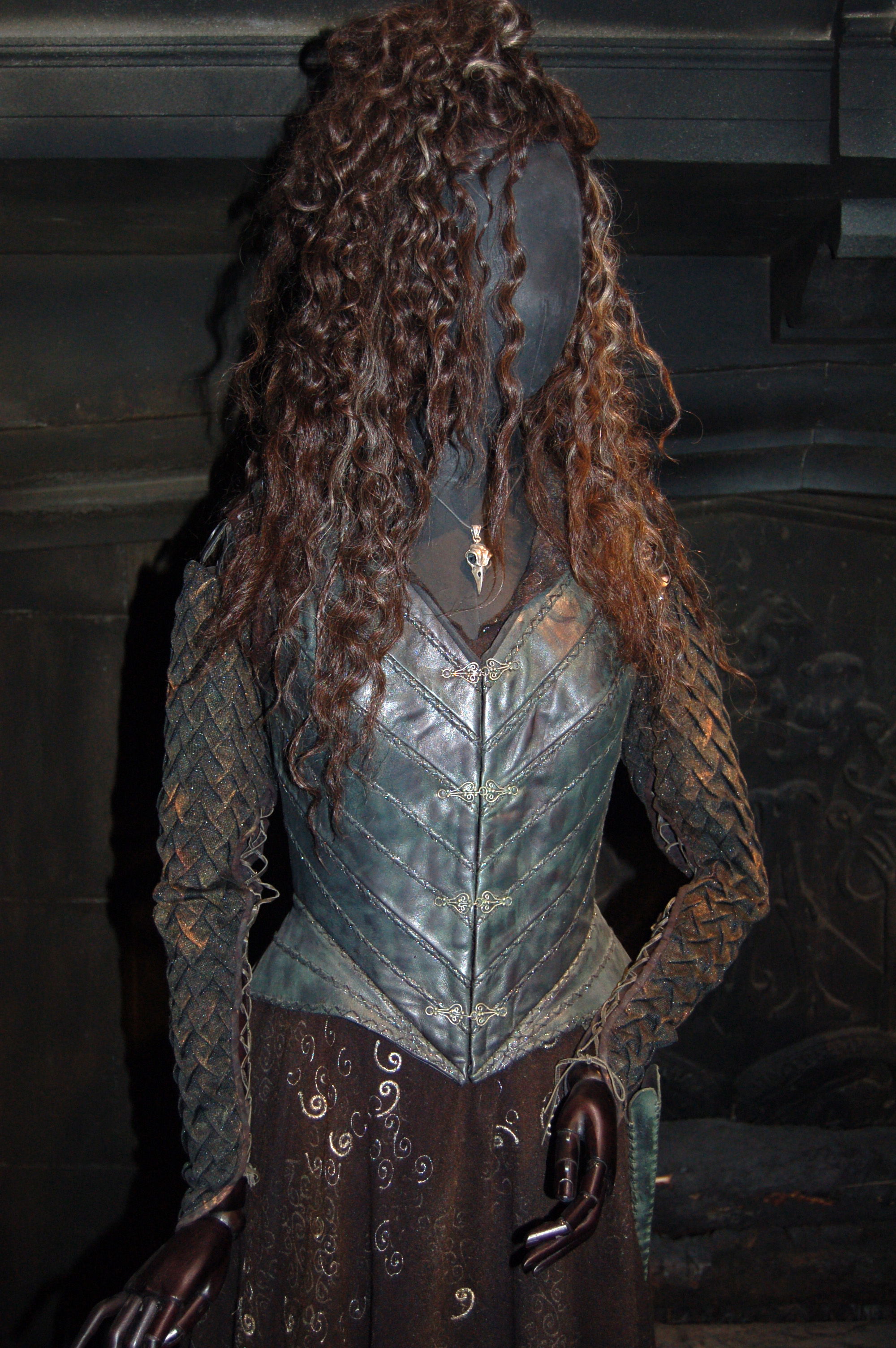 Worn by Helena Bonham Carter in Harry Potter and the Deathly Hallows - Part 2